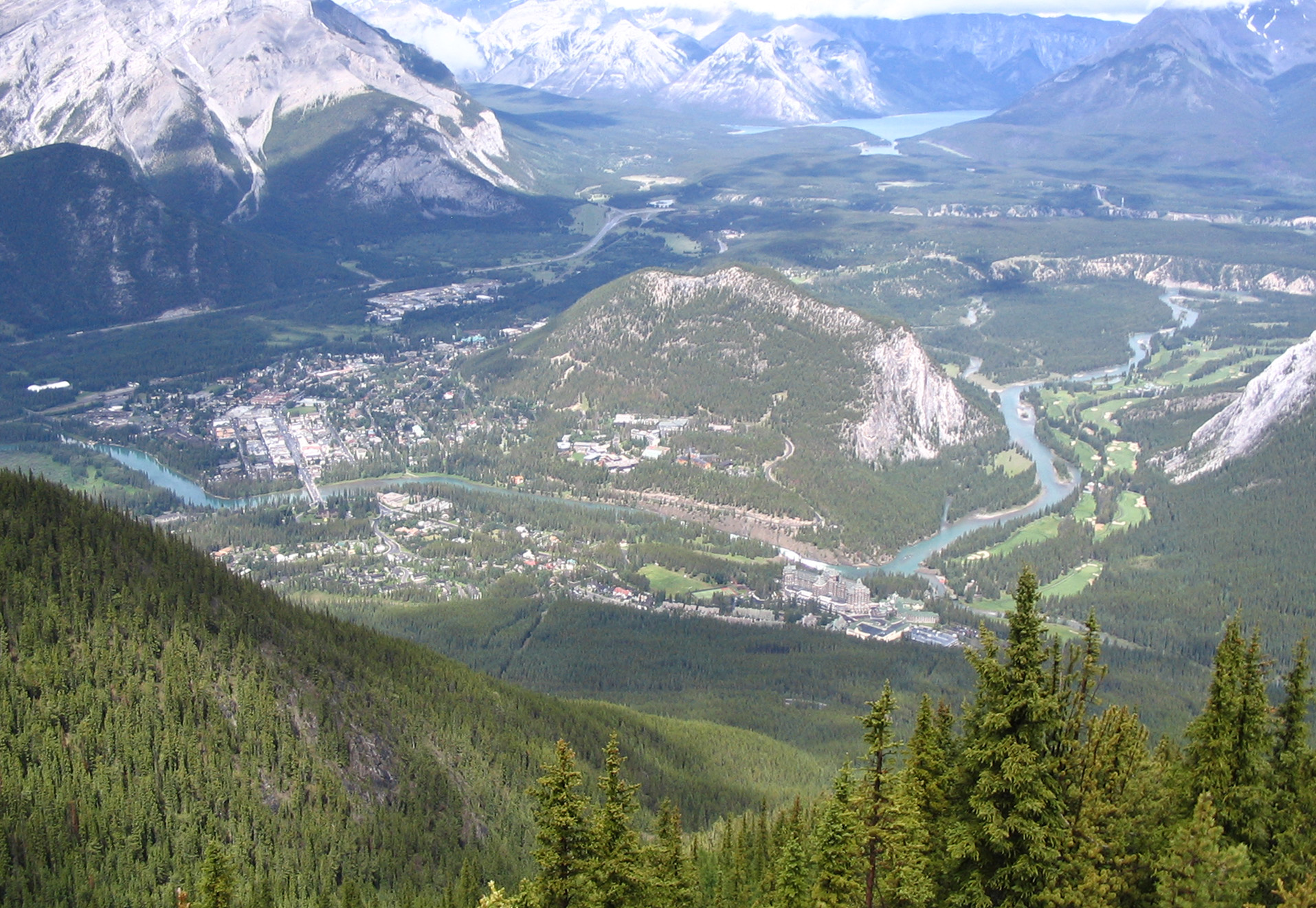 The Banff townsite, photographed from the top of Sulphur Mountain, and the image corrected so that the horizon is horizontal. Photographed by me, User:Borbrav, in July 2005 and released to the public domain.